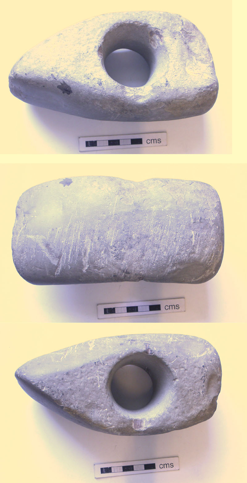 Stone axe-hammer head dating from the final phases of the Neolithic to the Early Bronze Age. The axe head has been damaged, most likely by a plough, there are scratch marks on the sides and at the butt end some chunks have been broken off. Overall the axe head is sub-triangular in plan, with the butt having rounded corners and the blade not being central. The shafthole is midway between the blade and butt but is not equi-distant from the sides. It is circular and smooth all the way through. The axe is made from a hard, grey, igenous stone. Using Roe's typology this is a Class 2 as the blade and butt are fairly equal in thickness (1979; P30-32). Their use is not certain but some possibilities include a form of primitive plough or hammer.